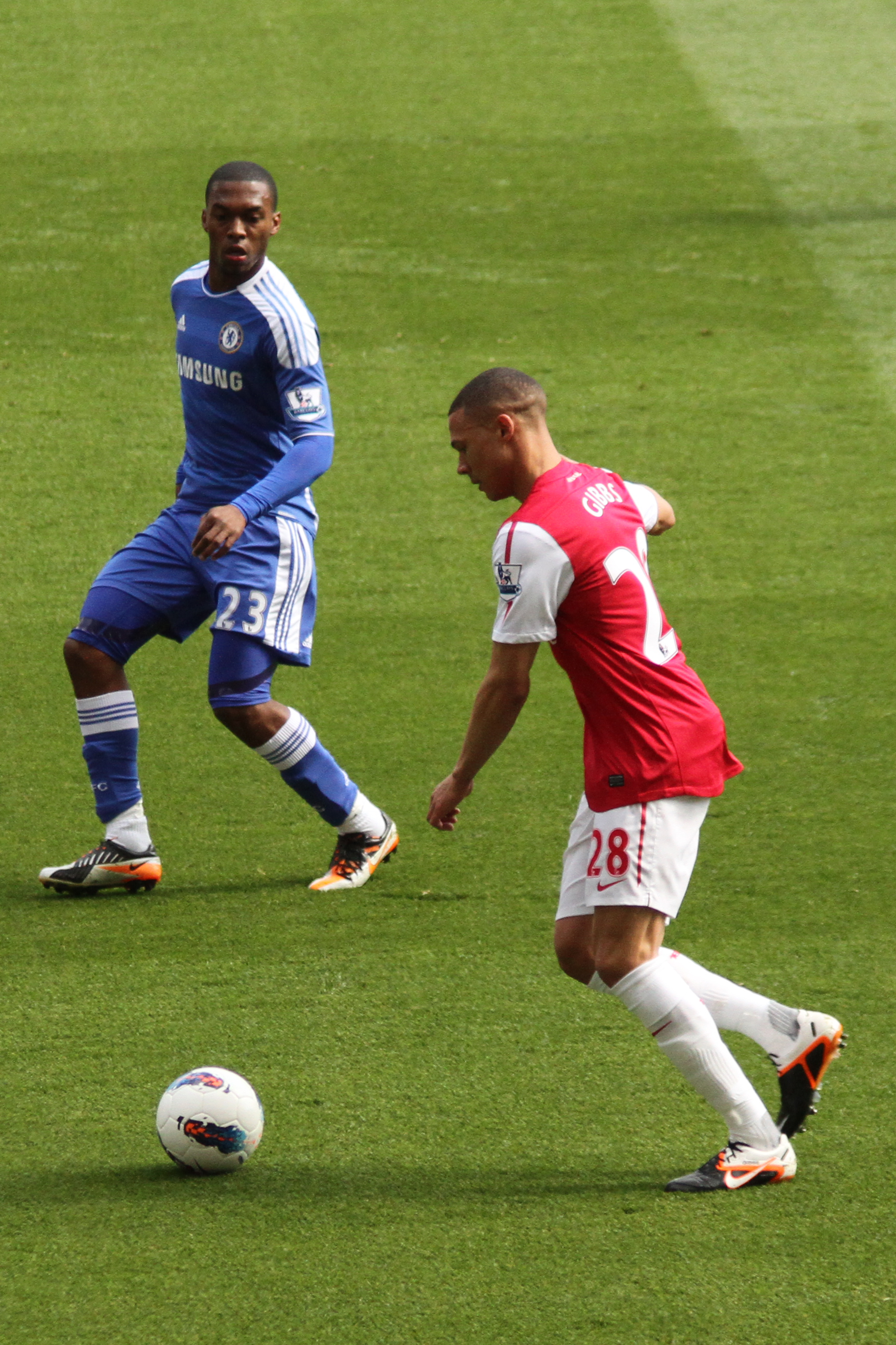 During Arsenal vs Chelsea at Emirates Stadium, April 2012.